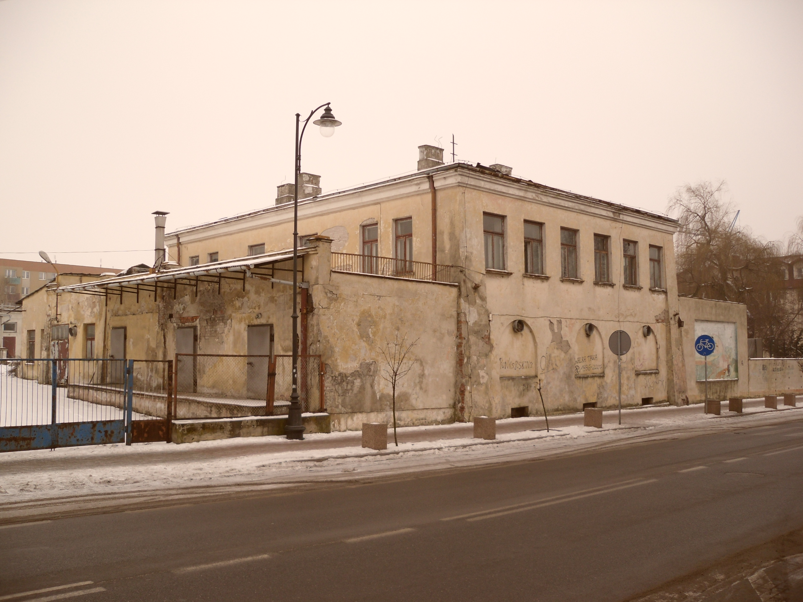 Sochaczew - former dairy building